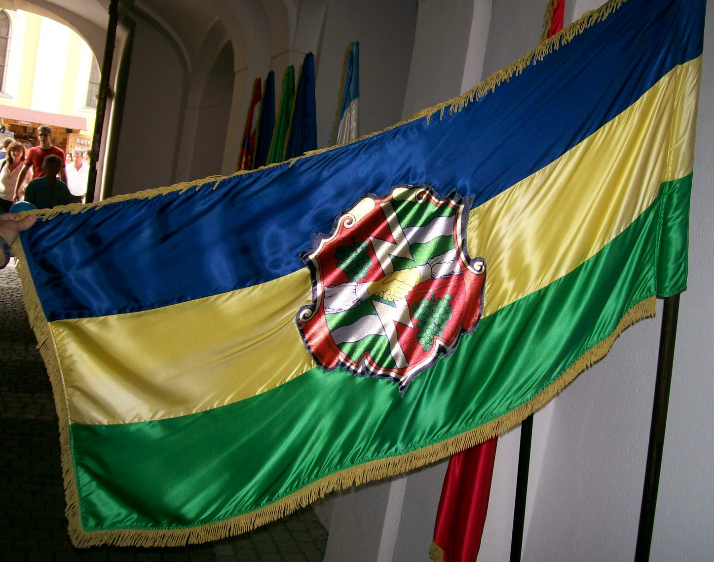 Flag of Municipality of Sveti Ilija, Varaždin County, Croatia ( reverse side of the flag)